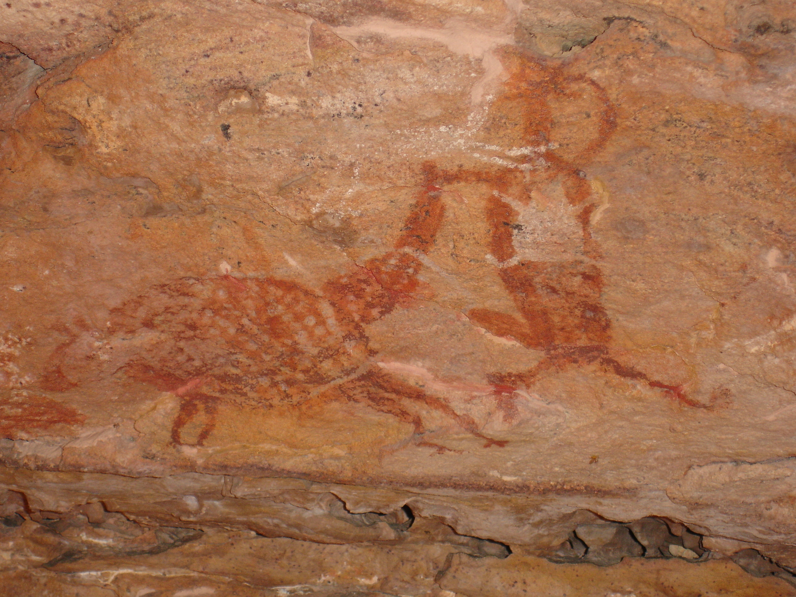 Painting